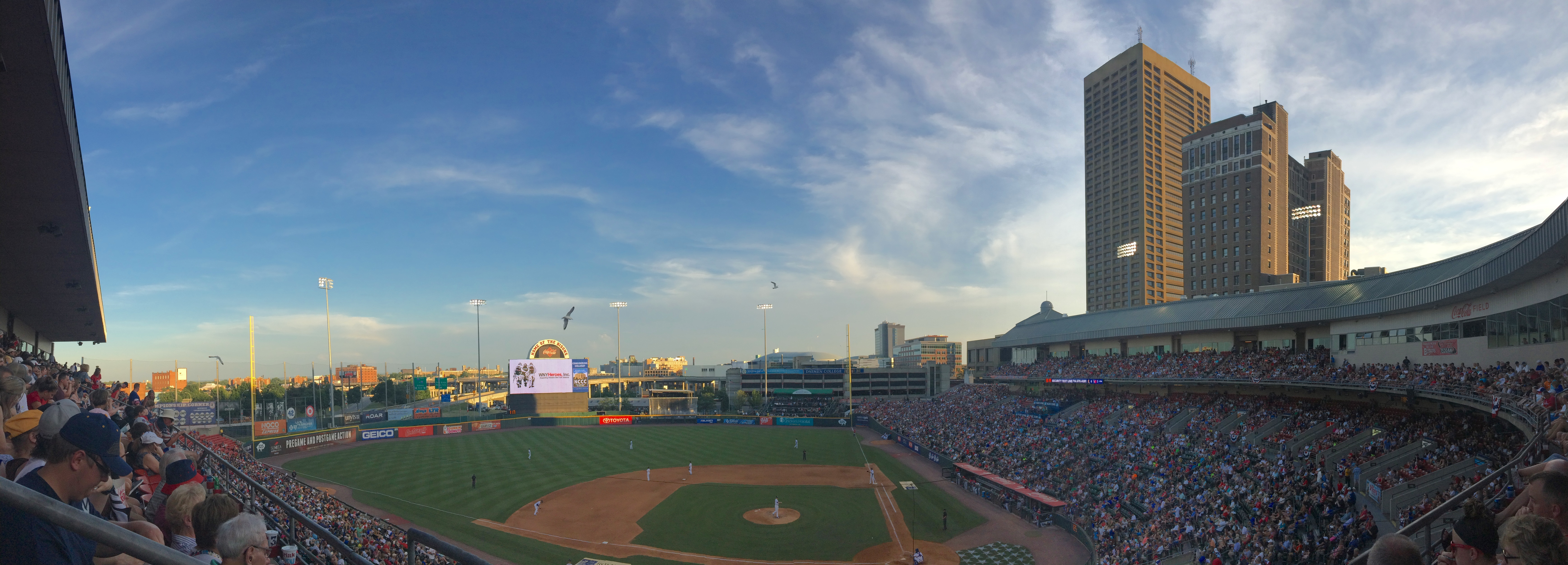 Panoramic view of Coca-Cola Field during a July 2018 game between the Buffalo Bisons and the Syracuse Chiefs.